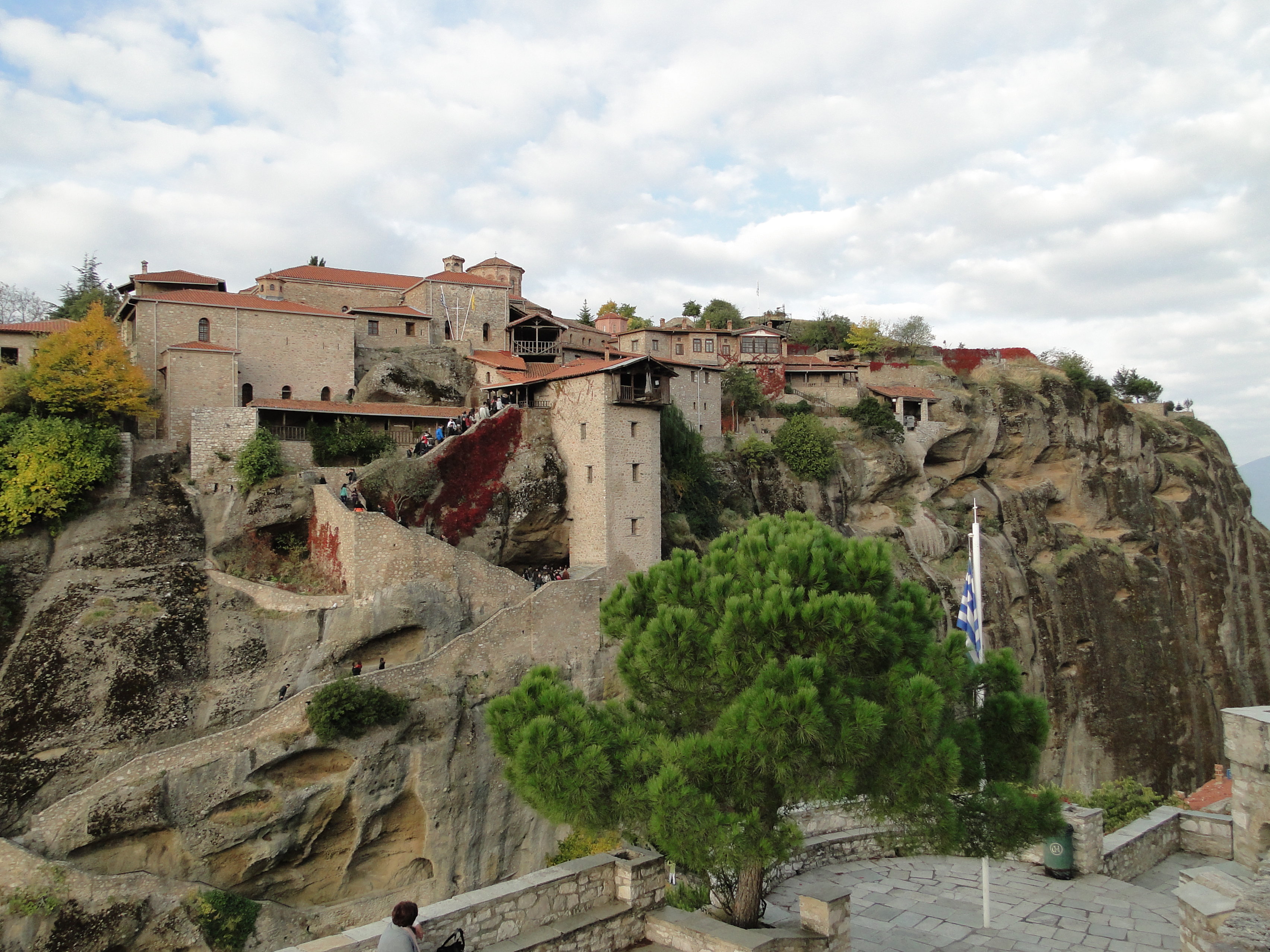 Great Meteoron Monastery, Meteora, Greece